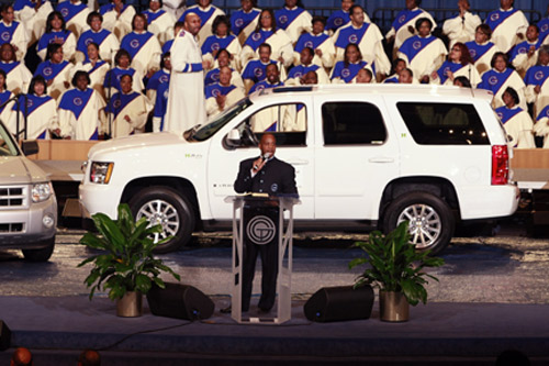 Bishop Ellis prays for Detroit auto workers.